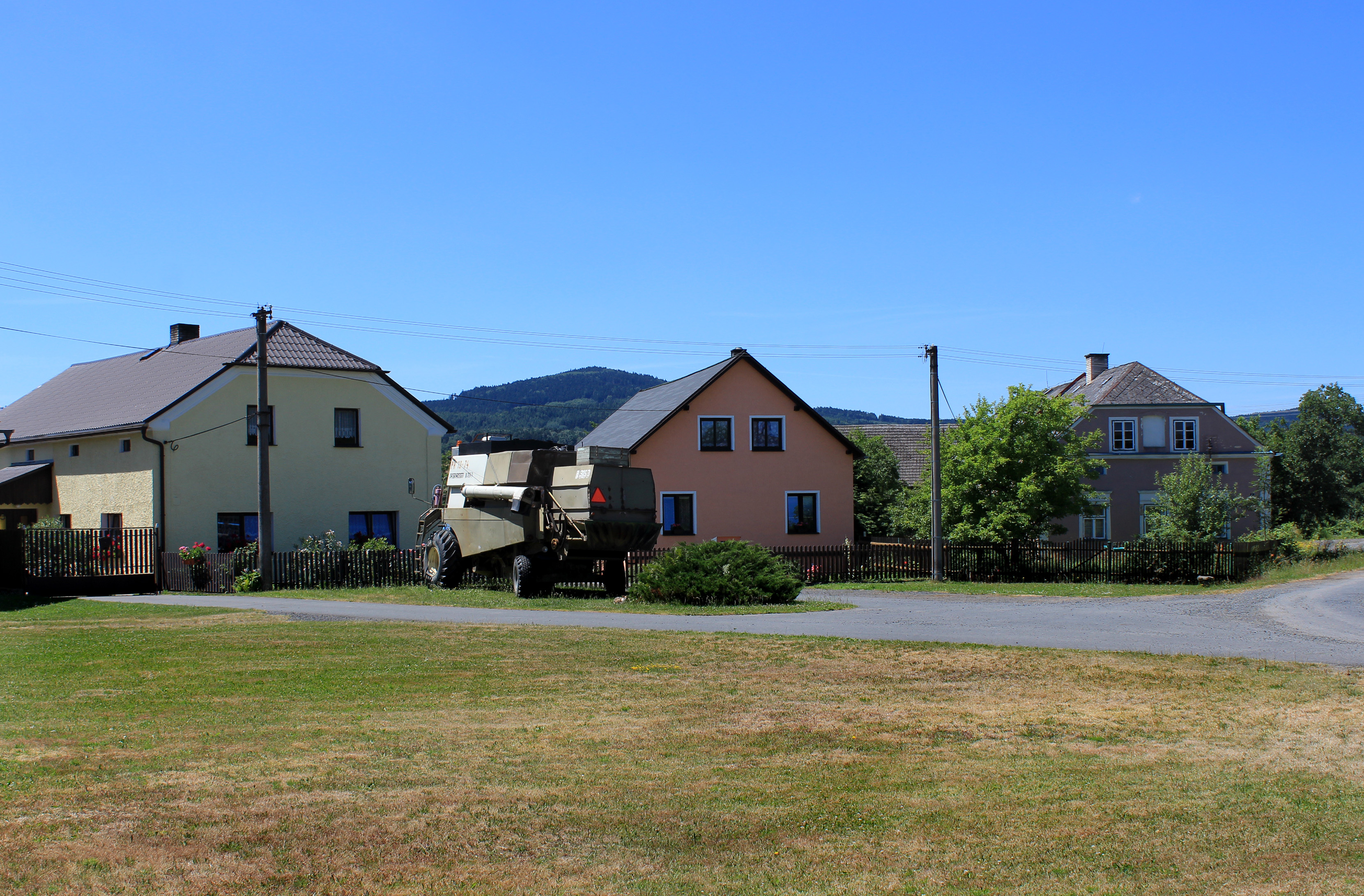 Common in Hvožďany, Czech Republic.